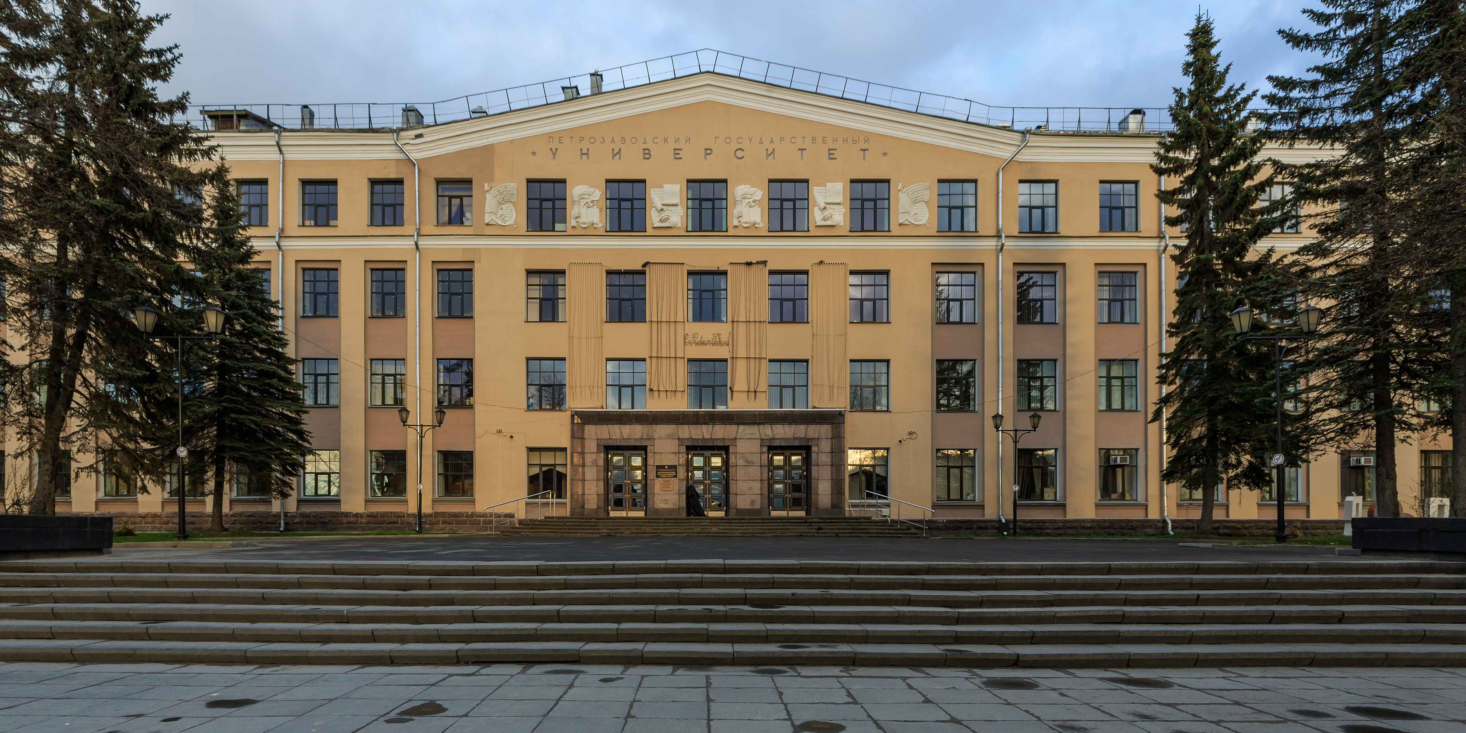 Main building of the University in Petrozavodsk, Republic of Karelia (Russia).